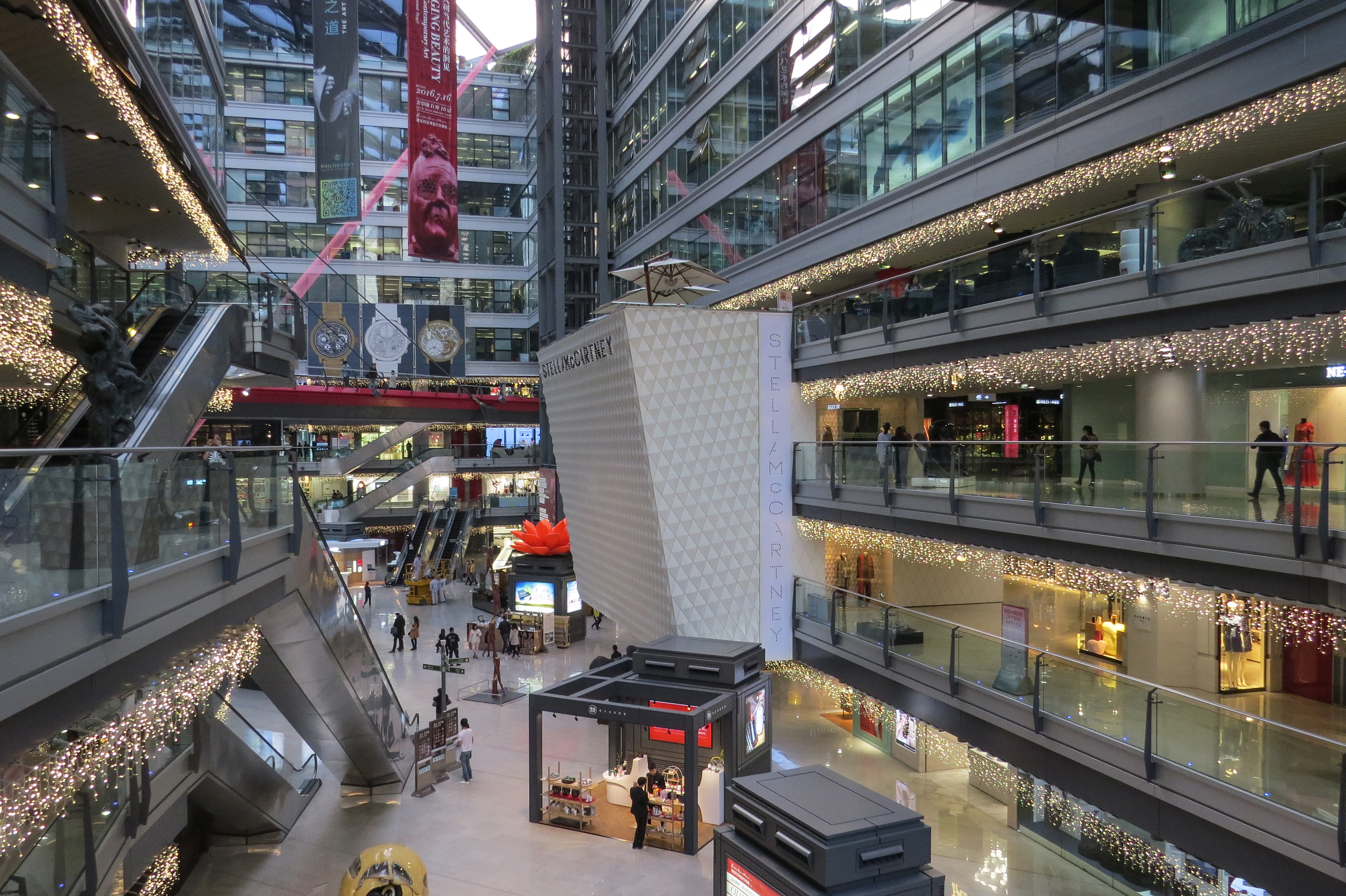 Taken on 17:17:17... Note the presence of art museum, making this "Chyau Fwu Fangcaodi" something like YBCA.